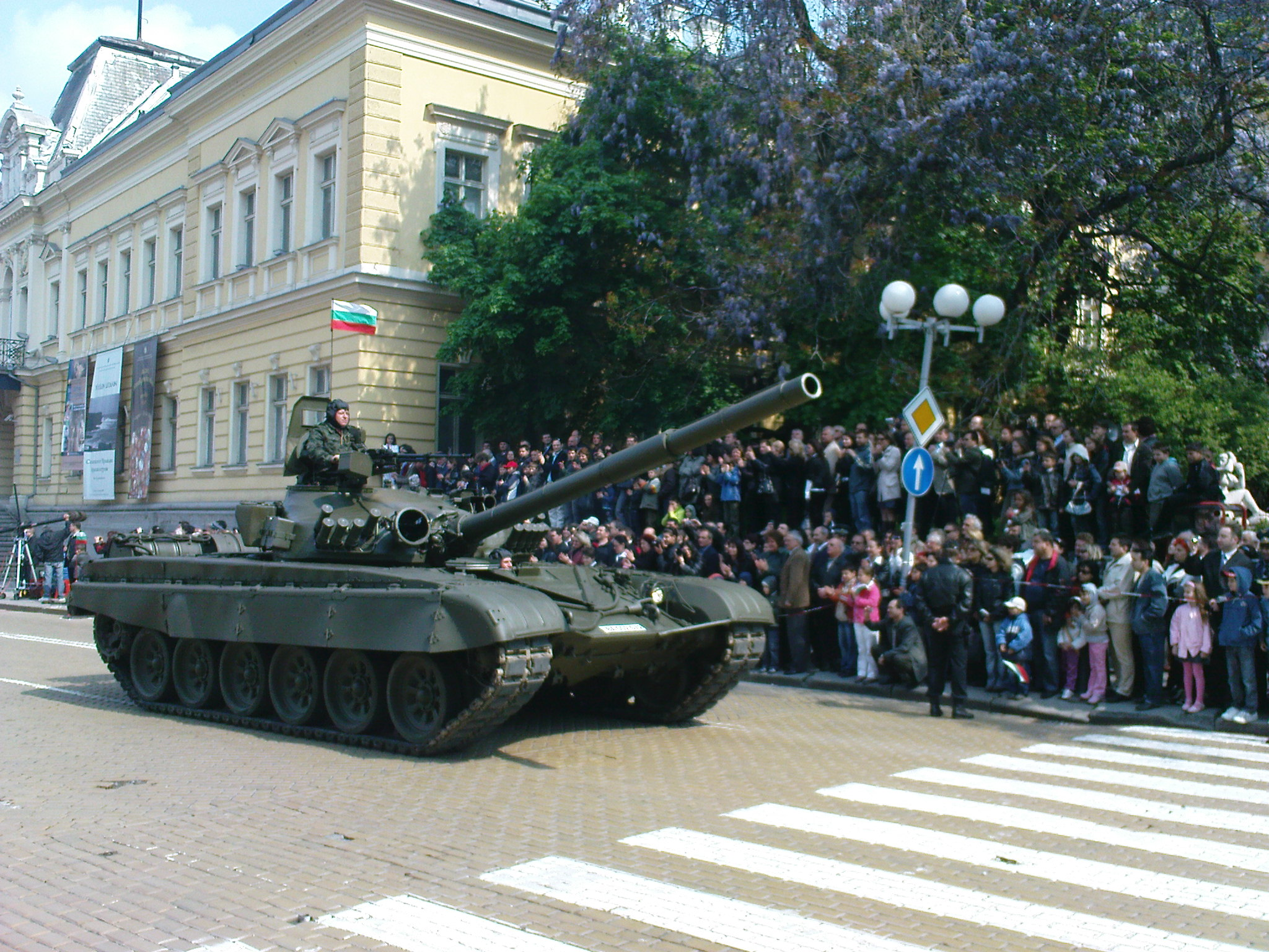 T-72M2 tank on Army day parade in Sofia